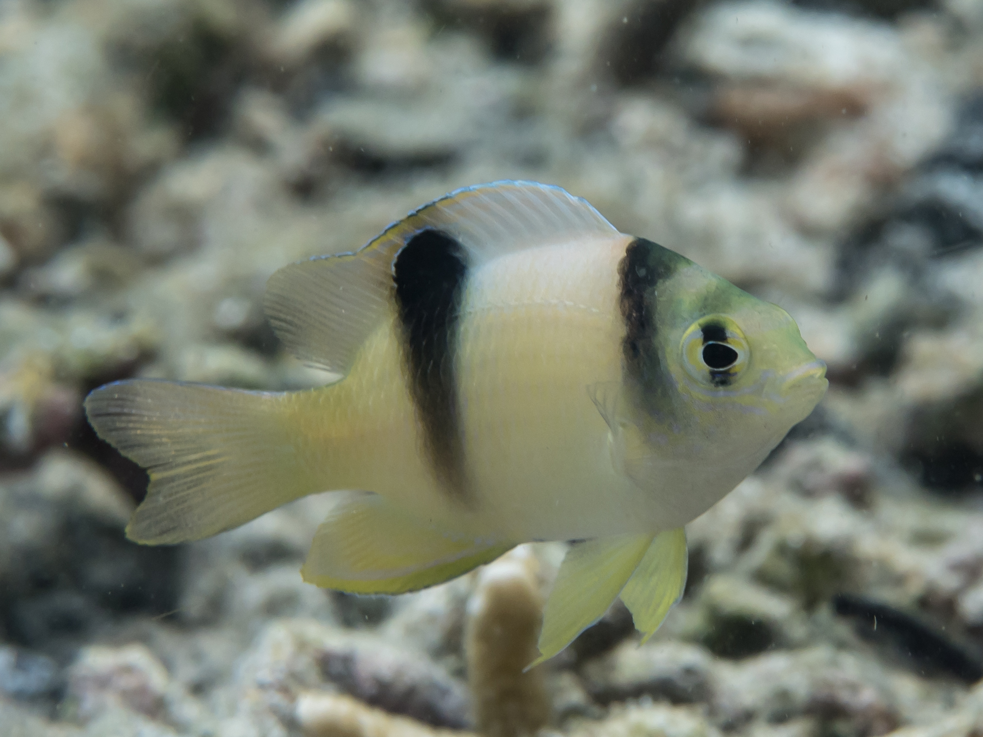 Lembeh, Indonesia - White damsel juvenile (Dischistodus perspicillatus)